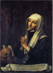 Venerable Ursula Benincasa, foundress of the Theatine nuns (oblates and hermitesses) of the immaculate Conception of the Virgin Mary.